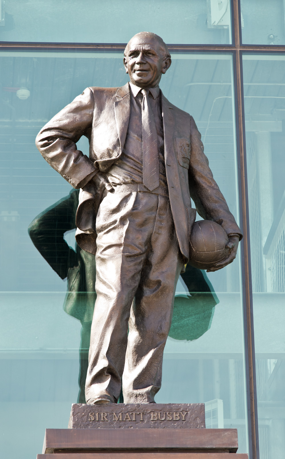 Manchester United